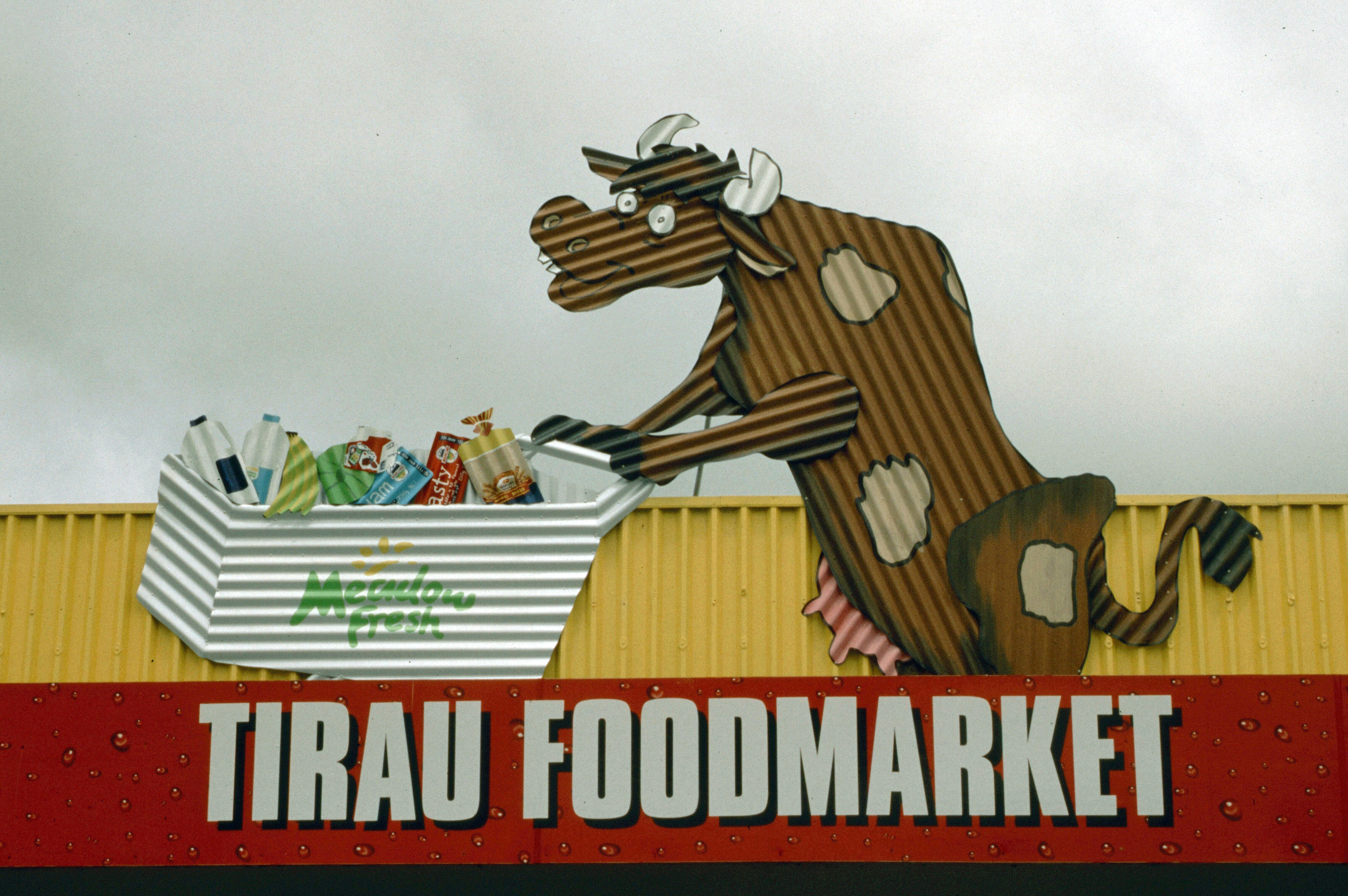 A typical ad for a shop in Tirau, New Zealand.